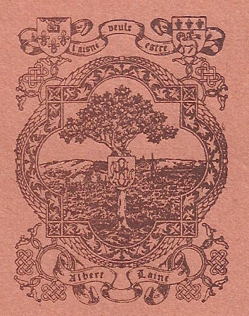 Monogramme Albert Lainé